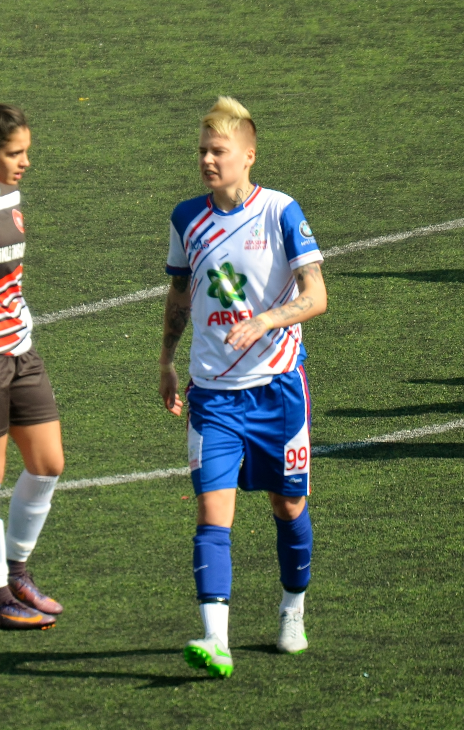 Tetyana Kozyrenko playing for Ataşehir Belediyespor in the 2017-18 Turkish Women's First Football League away match against Fatih Vatan Spor.